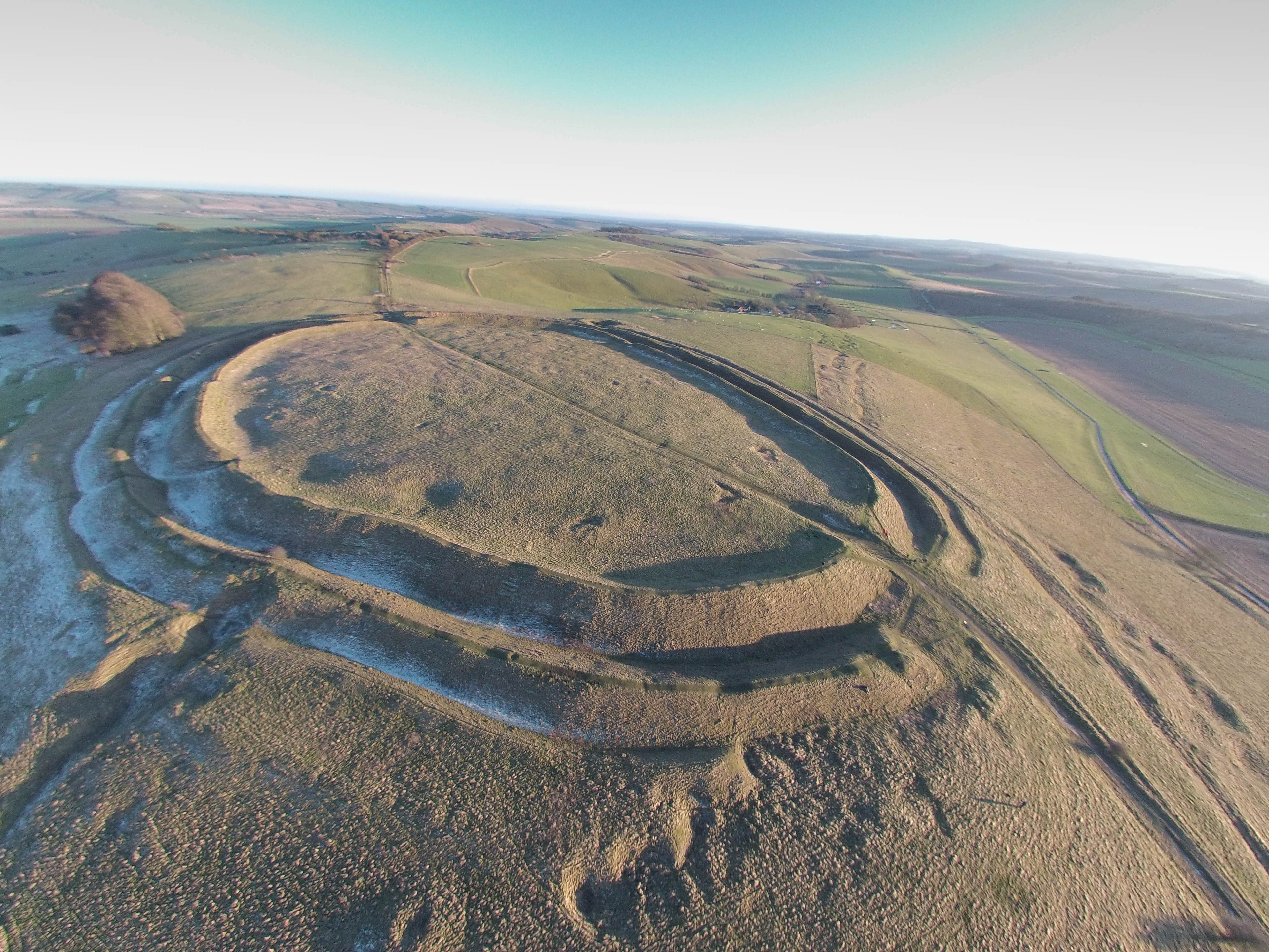 DCIM\105GOPRO